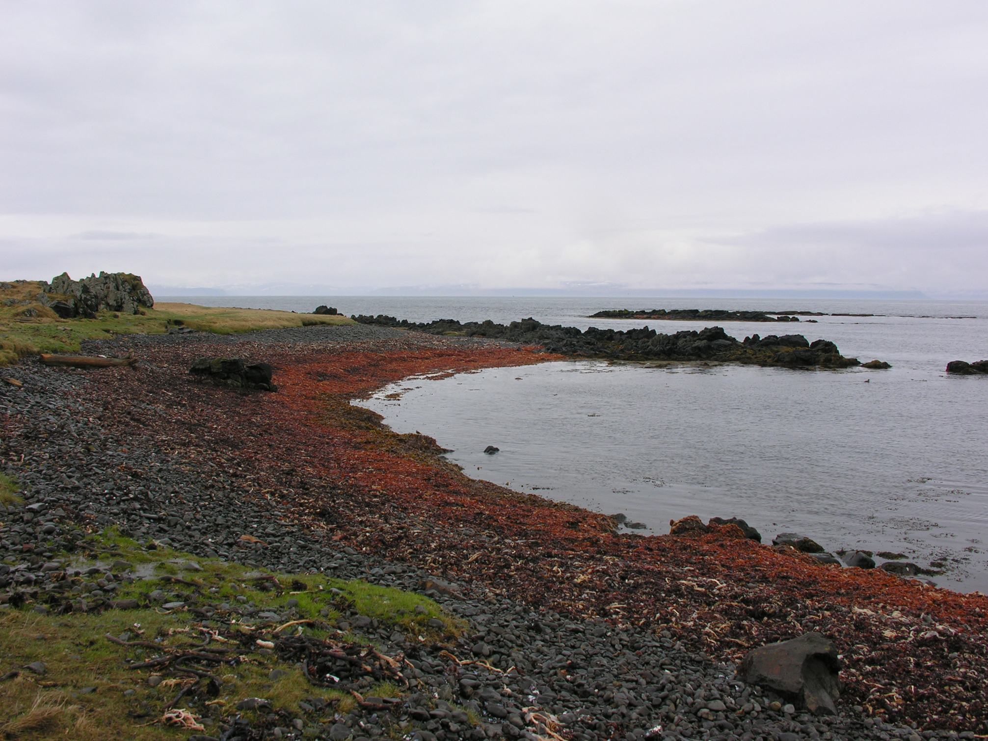 Iceland, impressions along road 711